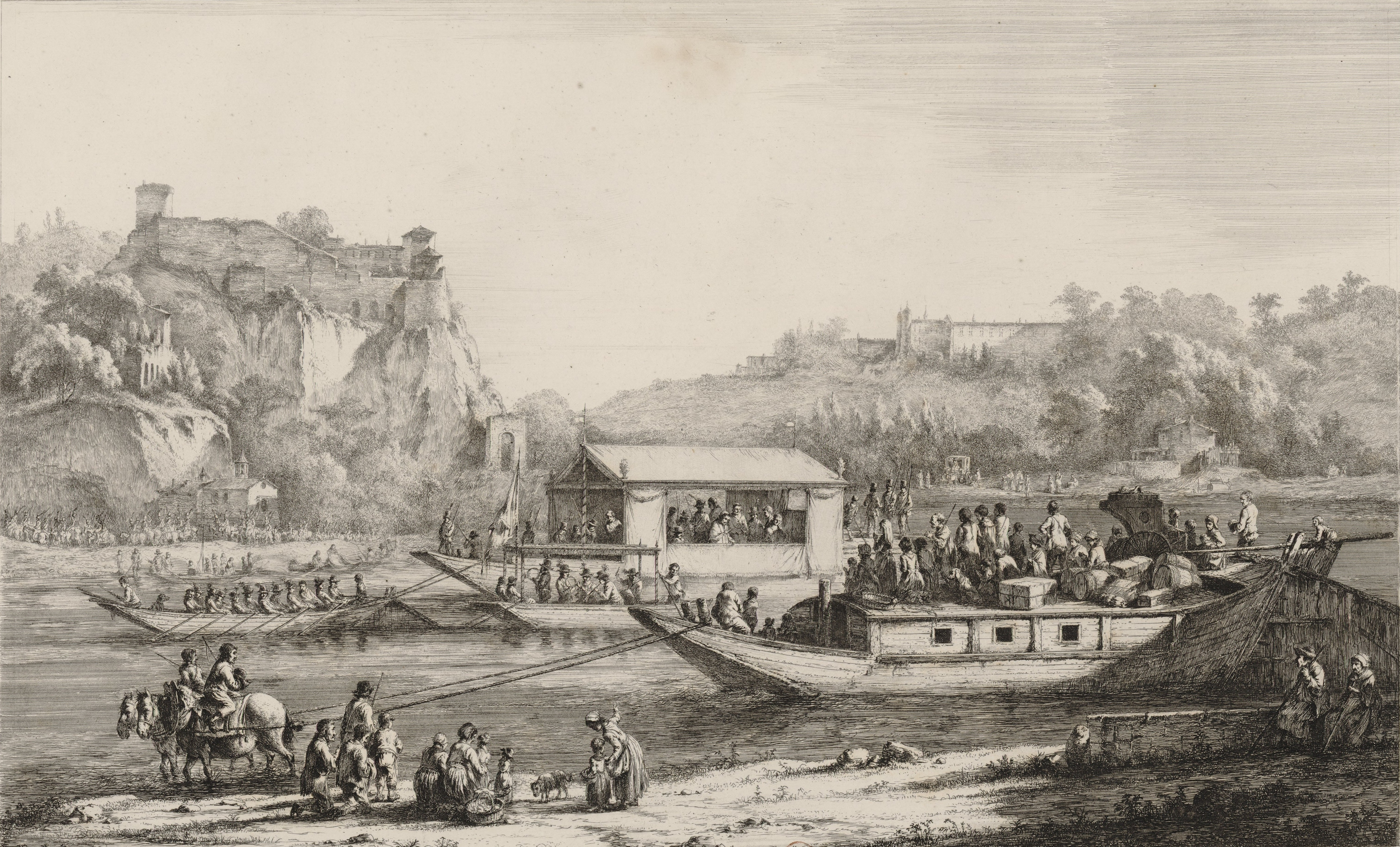 The visit of Pope Pius VII to Lyon in 1805